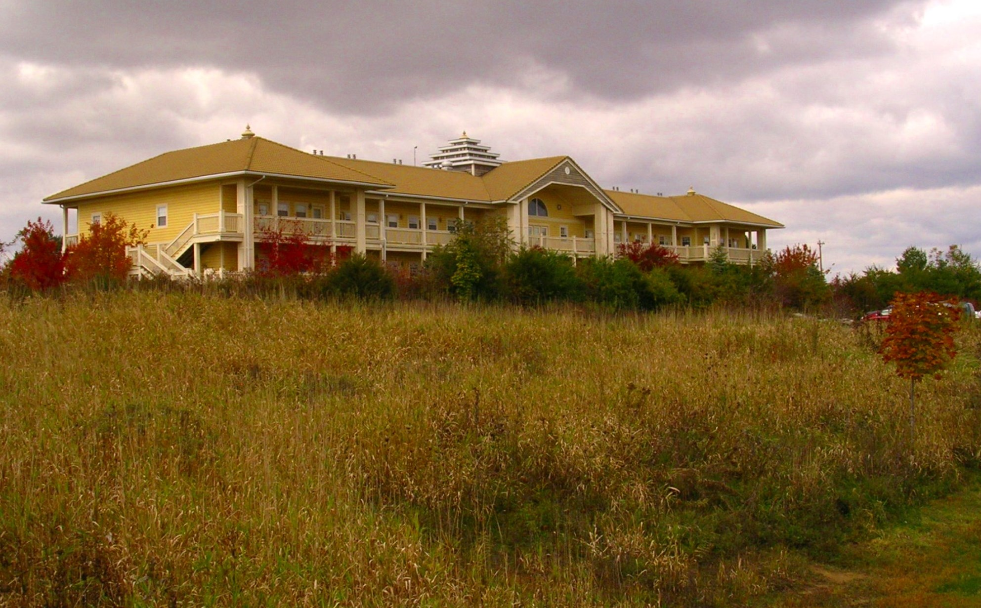 Personal photo of the Rukmapura Park Hotel in Maharishi Vedic City, Iowa. 00:45, 29 June 2010 (UTC).